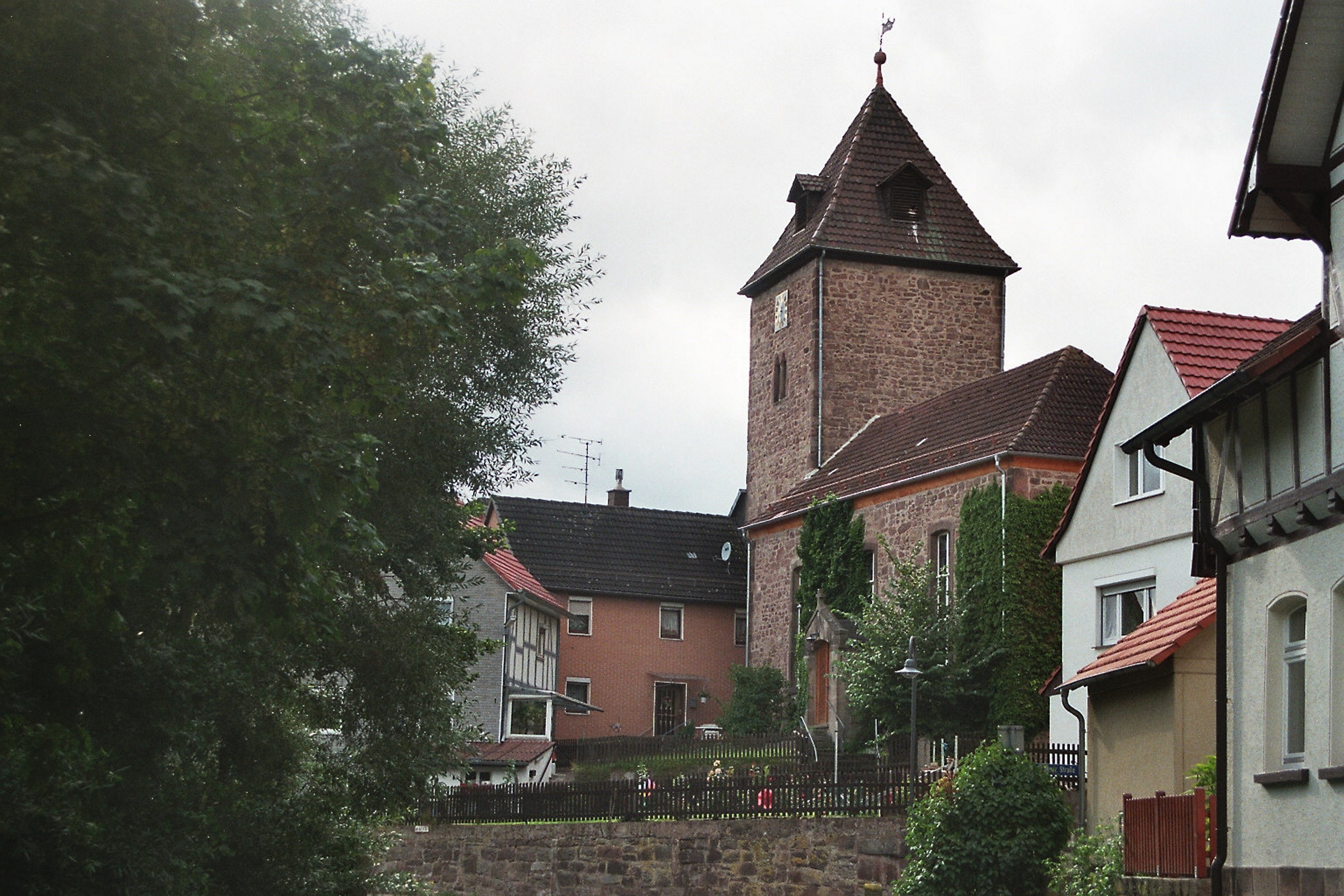 Blickershausen (Witzenhausen), the village church